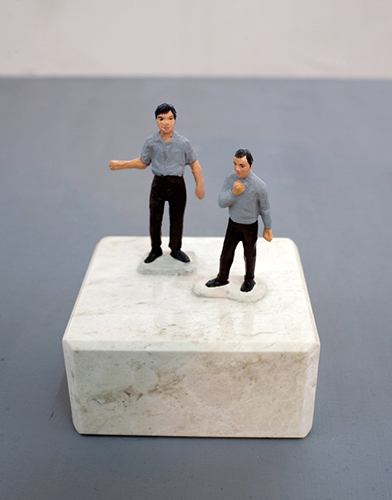 image of a sculpture by Gregory Maass and Nayoungim